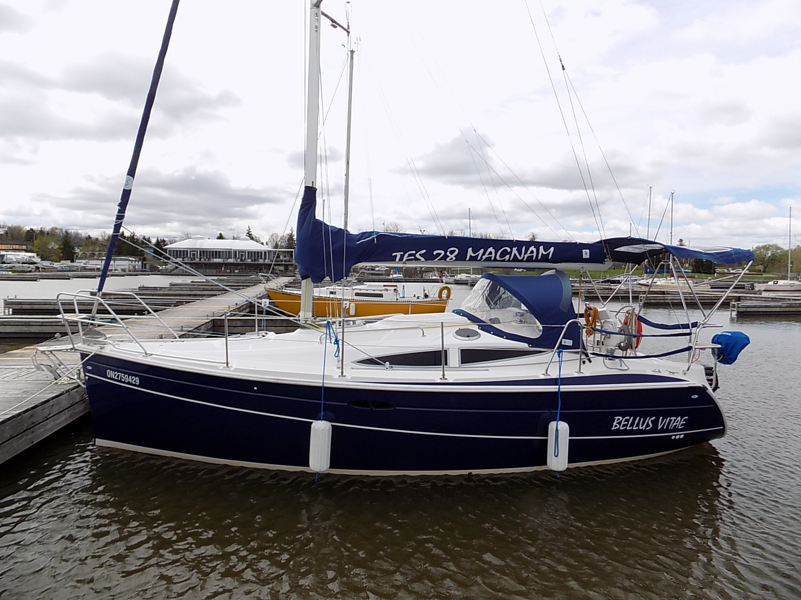 A TES 28 Magnam sailboat named Bellus Vitae (Avoiding War).